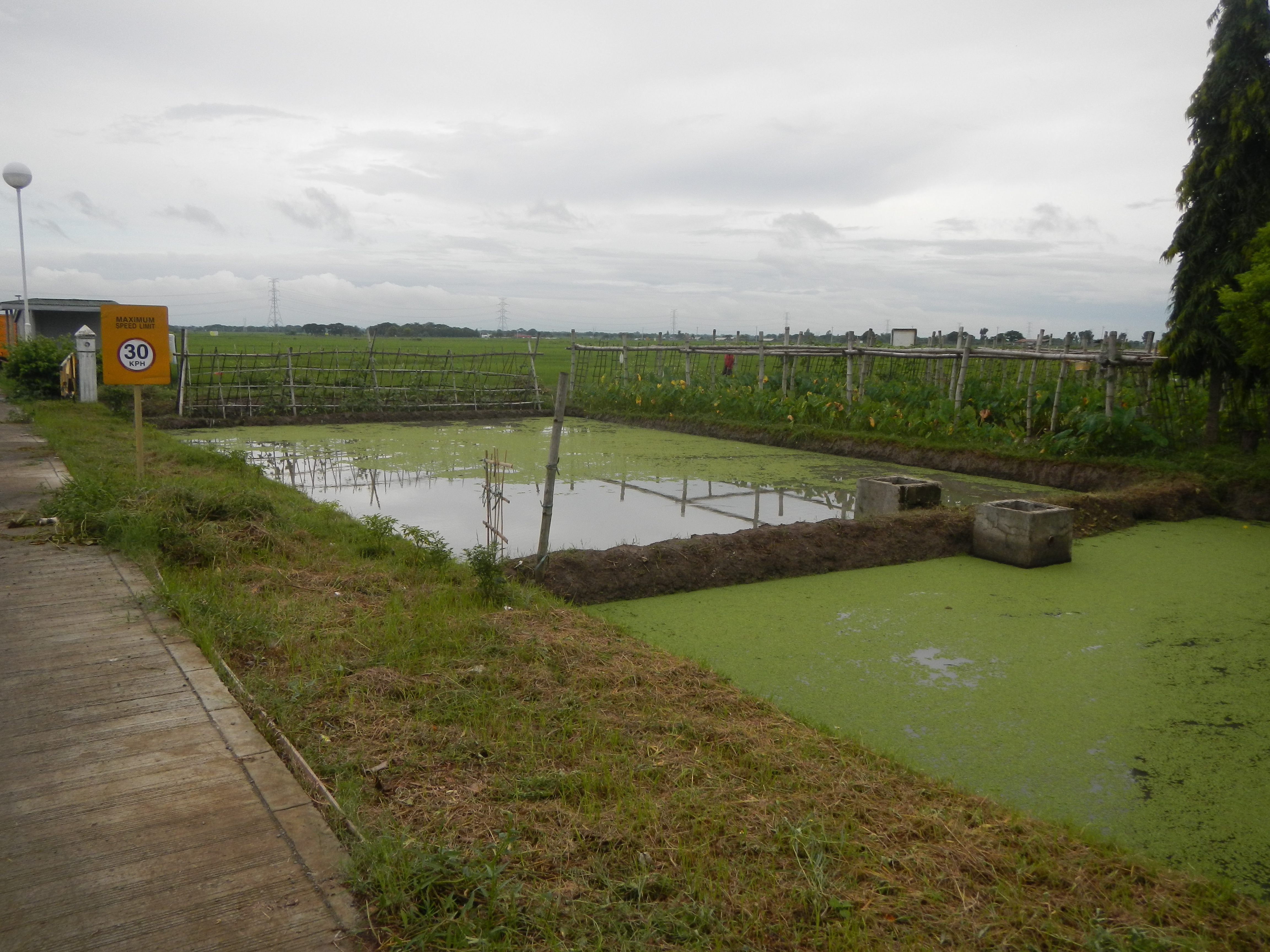 Azolla Production and Demonstration Farm involving on the 4 qualified Azolla, namely - Azolla, - Azolla microphylla Kaulf., Azolla pinnata, Azolla pinnata var pinnata, Azolla pinnata var imbricata, and Azolla caroliniana, in Philippine Rice Research Institute, PhilRice, (is a government corporate entity attached to the Department of Agriculture, created through Executive Order 1061 on 5 November 1985 (as amended), Irrigated Rice Research Consortium, and International Rice Research Institute; located in Barangay, Maligaya, Muñoz, Nueva Ecija, in front of its Barangay Hall and Chapel along the Pan-Philippine Highway, also known as the Maharlika "Nobility/freeman" Highway or Asian Highway 26, in Cagayan Valley Road; or Category:Maharlika Highway (Cagayan Valley Road, Talavera-Santo Domingo-Quezon-Science City of Muñoz, Nueva Ecija section) since its re-launch in September 2014, the museum opened 3 exhibits titled, Lovelife with Rice, Abundant Harvest, and Colors of Rice, which focuses on the health and nutrition aspects of rice, will run until Feb. 2016; per guidance of Visual Artist Consultant of the Rice Museum, Rogelio N. Bibal; under bad weather photography due to effects of Typhoon Goni (2015)).